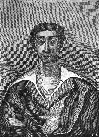 Ioannis Zampelios (1789-1856): Greek poet